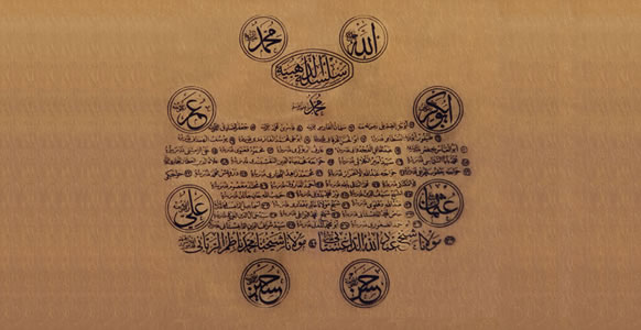 The "Golden Chain" with the names of the 40 Grandsheikhs of the Naqshbandiyya-Sufis